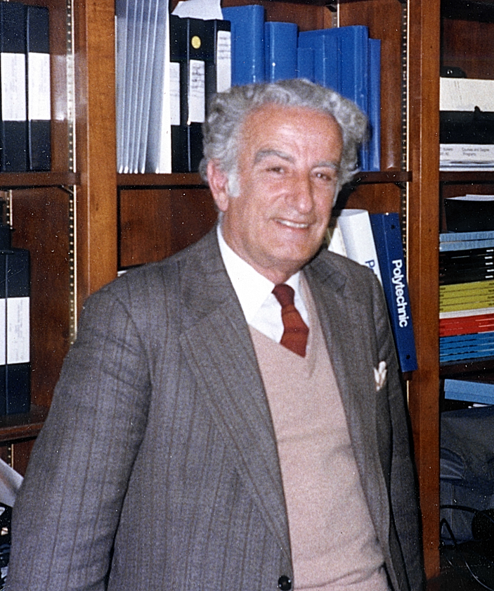 Athanasios Papoulis, circa 1989